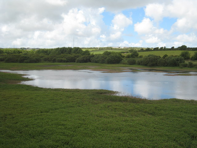 Part of Stithians Reservoir at Penhalvean